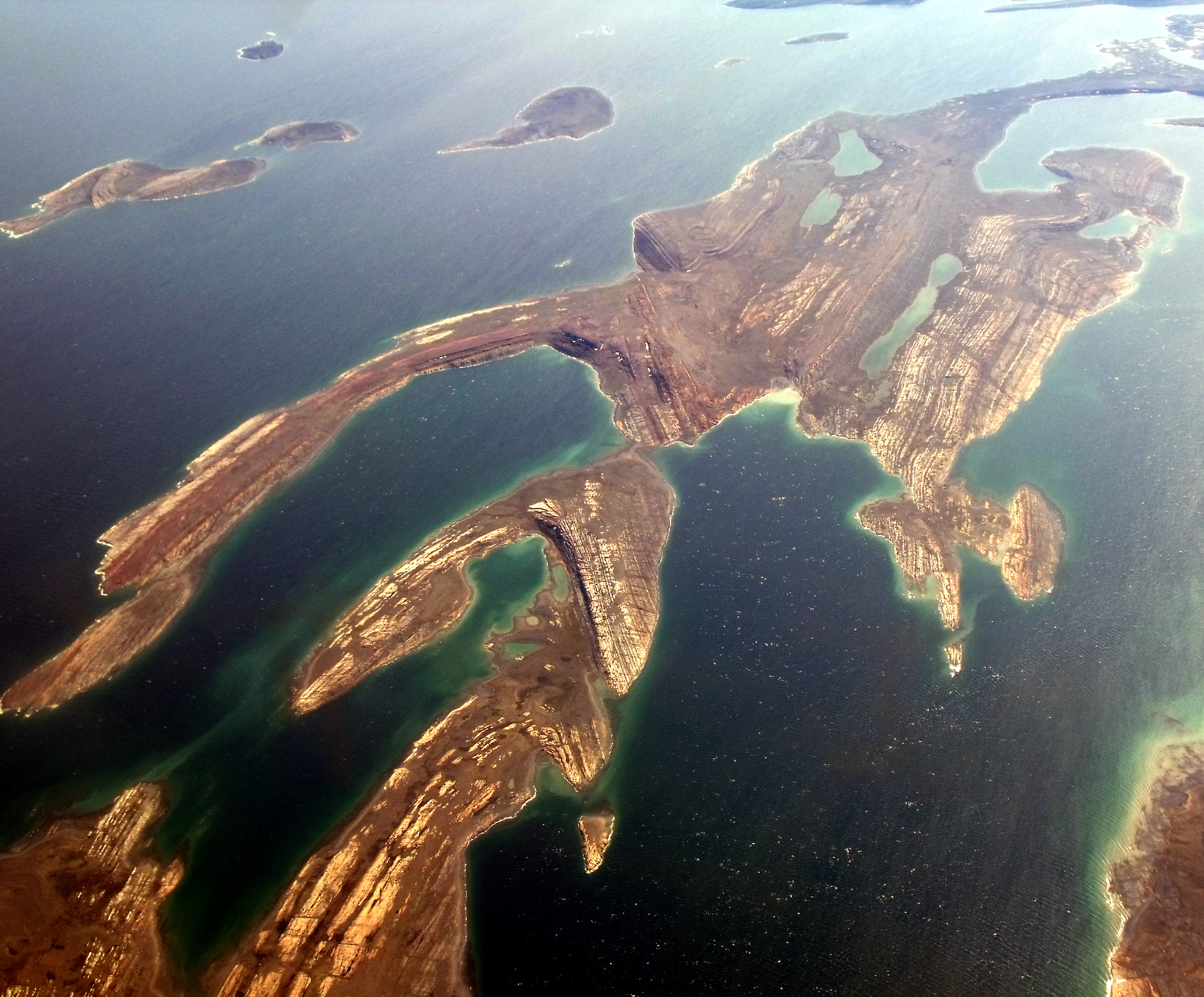 bedded dolomite on Belcher Islands got tweaked during large-scale folding. I am a nose-pressed-to-glass traveller who could not get a window seat leaving Sanikiluaq, of all places! The gal beside me was kind enough to snap a few with my p-'n-s.